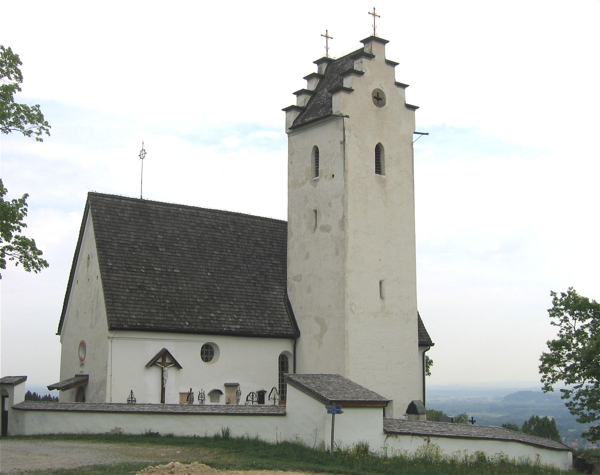 Sankt Margarethen (municipality of Brannenburg), view of Saint Margaret's Subsidiary Church from south-west.